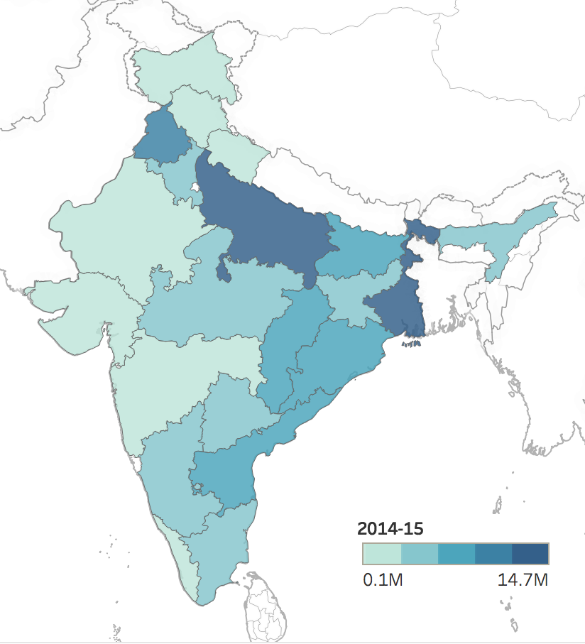 Rice Production (Million Tonnes) by States in India 2014-15